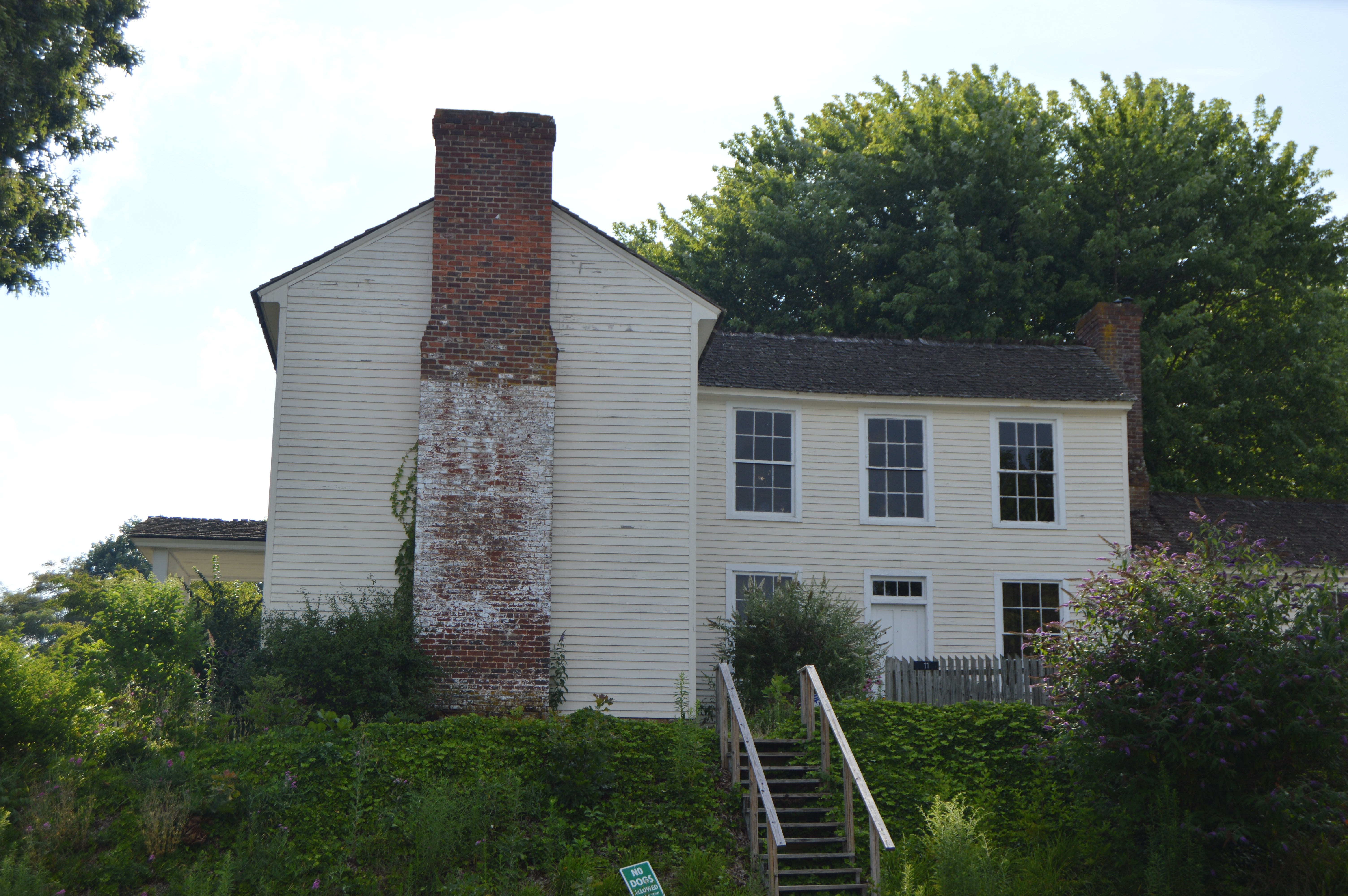 Eastern side of the John Wesley McElroy House, located at 11 Academy Street in Burnsville, North Carolina, United States. Built in 1845 and now a local history museum, it is listed on the National Register of Historic Places.